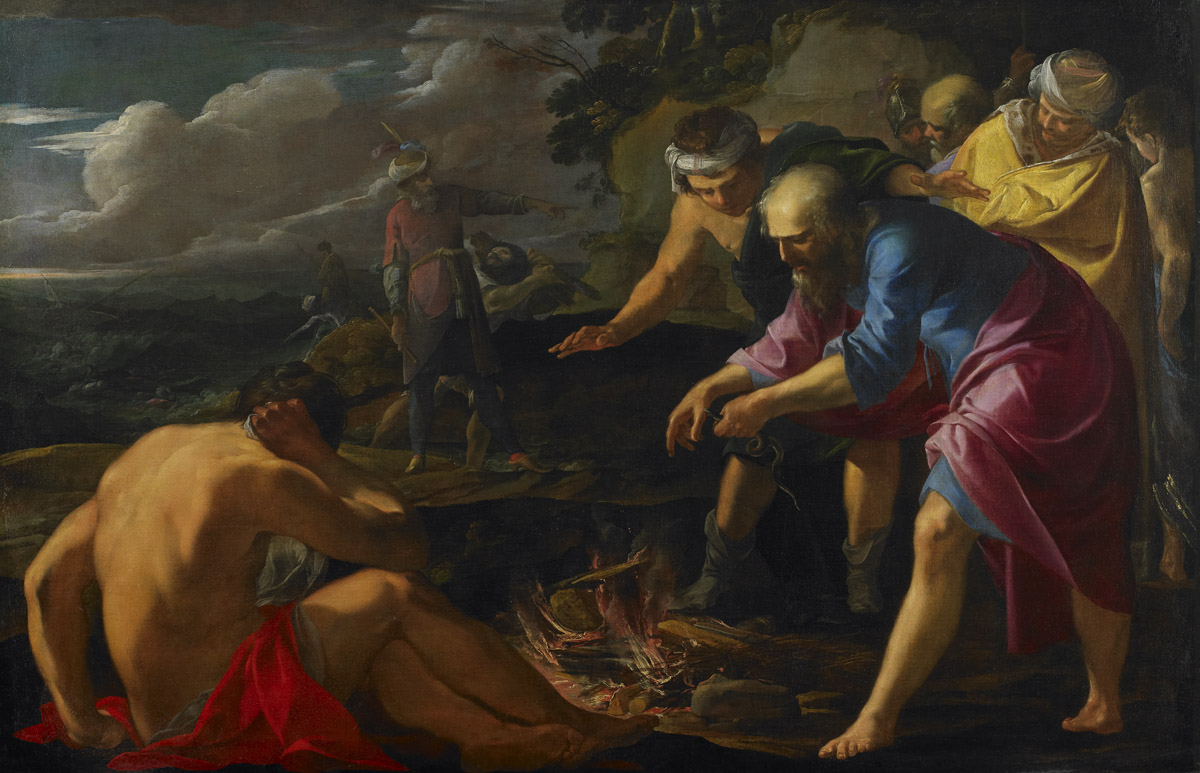 Acts 28:1-6 is illustrated showing Paul being perceived by the Malta inhabitants as a God.